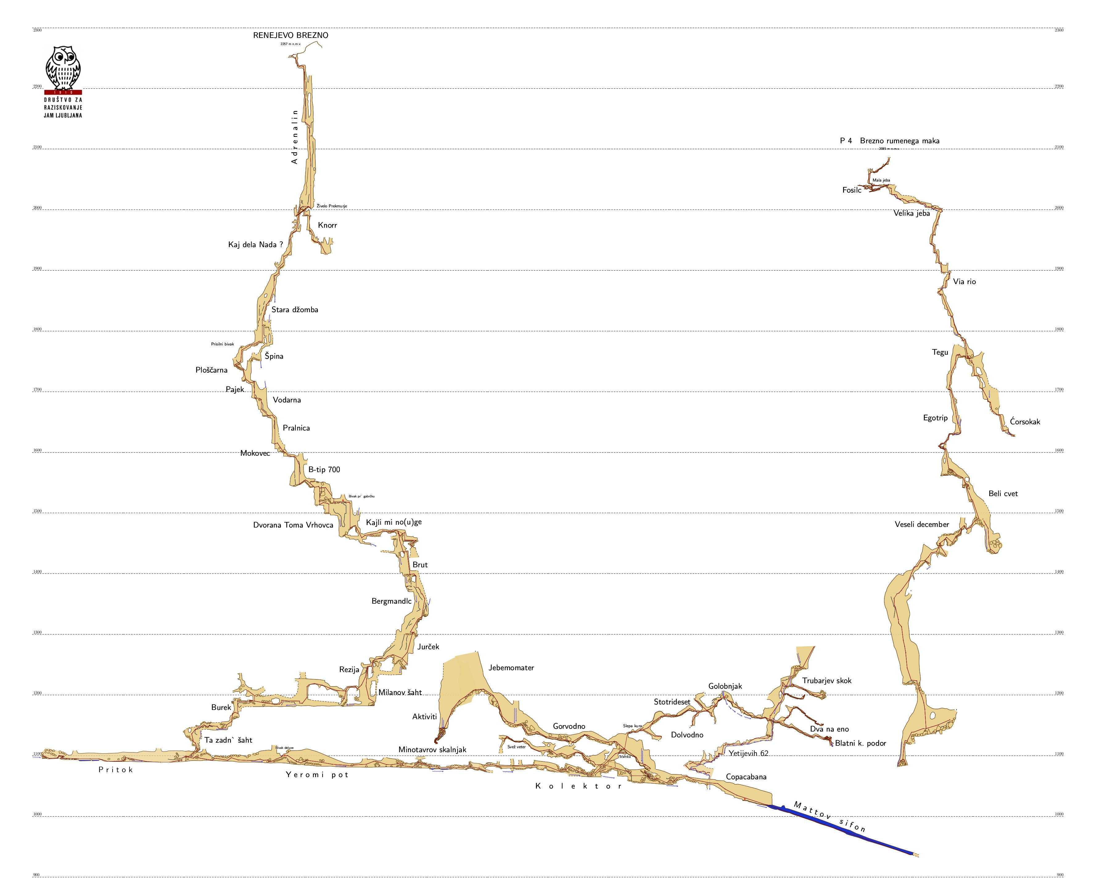 Westward profile of the caves Renejevo brezno and P4 in Kanin mountains, Slovenia, explored since 1998 by DZRJL, Ljubljana Cave Exploration Society and members of other caving societies from Slovenia and abroad. Map was drawn by Jože Pirnat - Jozl of DZRJL in 2017.